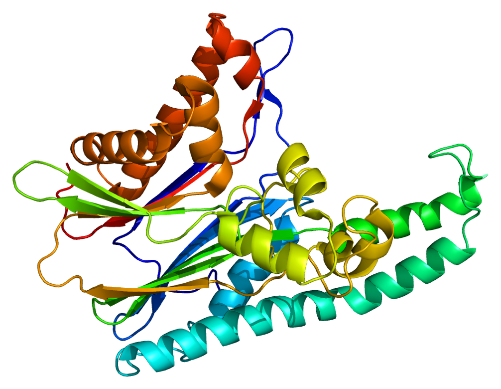 Structure of the MAP3K7IP1 protein. Based on PyMOL rendering of PDB 2j4o.